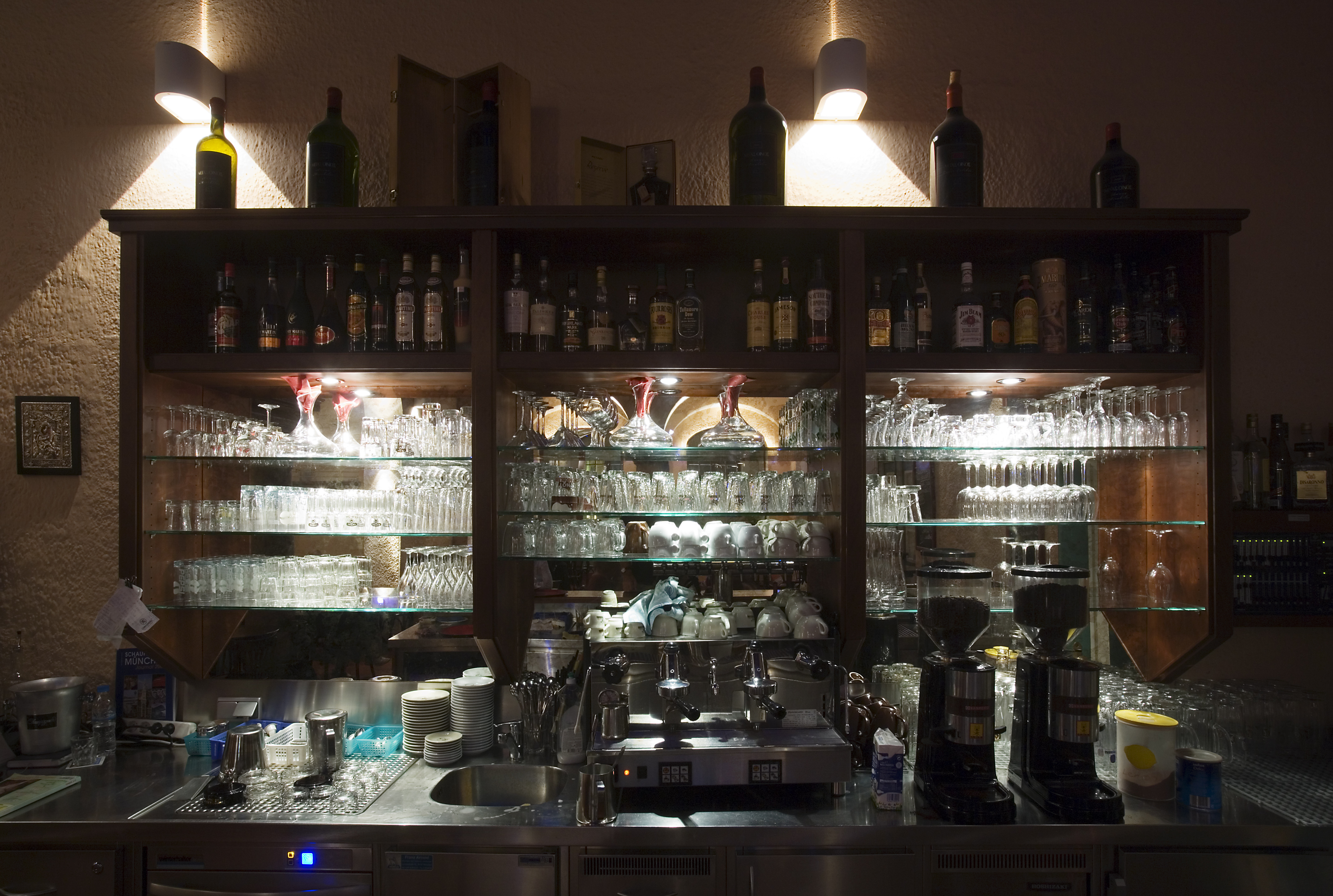 A bar with full drink supply. Munich, Germany